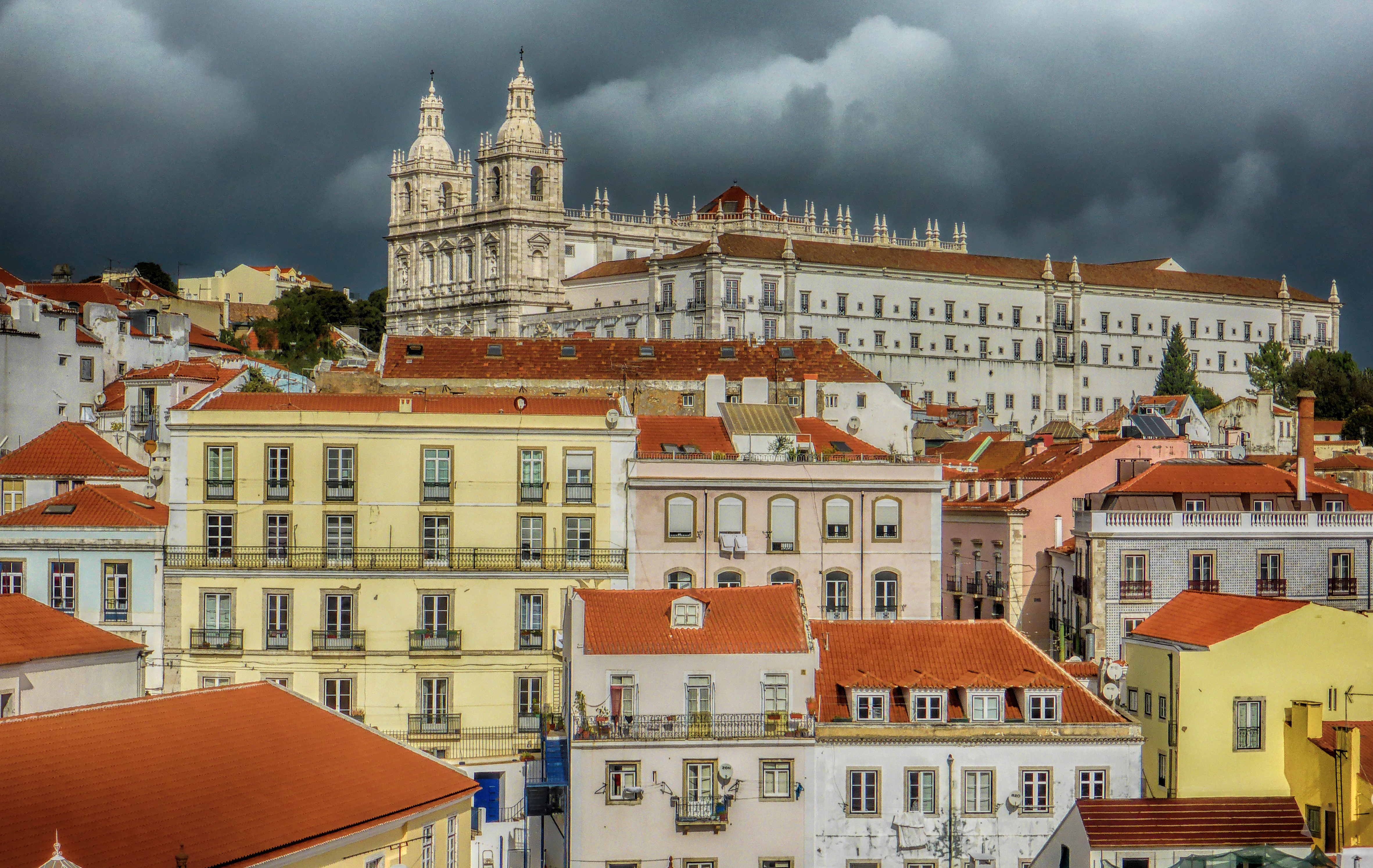 Churche S Vicente de Fora, Lisboa